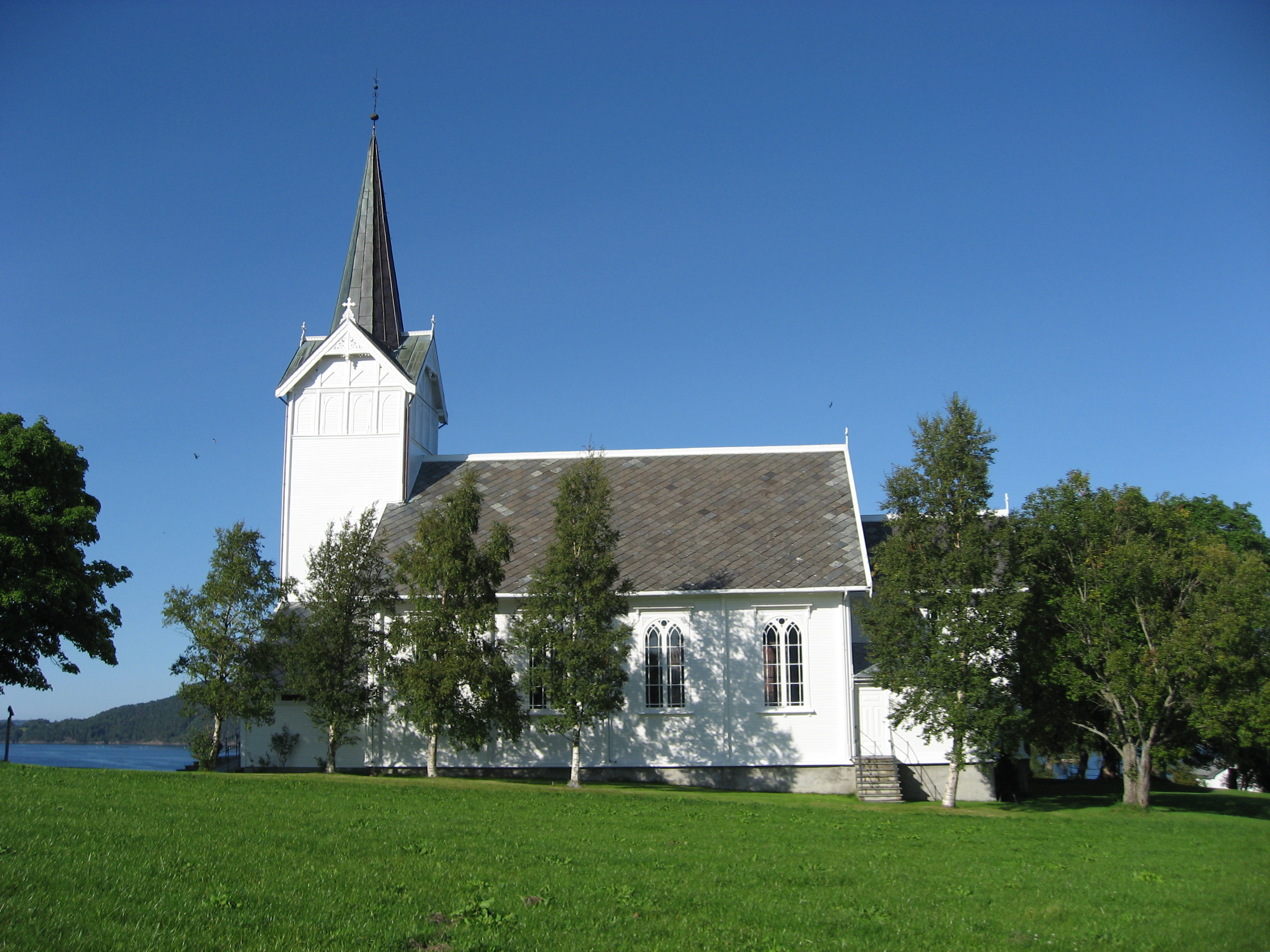 Kvernes church in Averøy, Møre og Romsdal, Norway. (Not to be confused with Kvernes stave church).